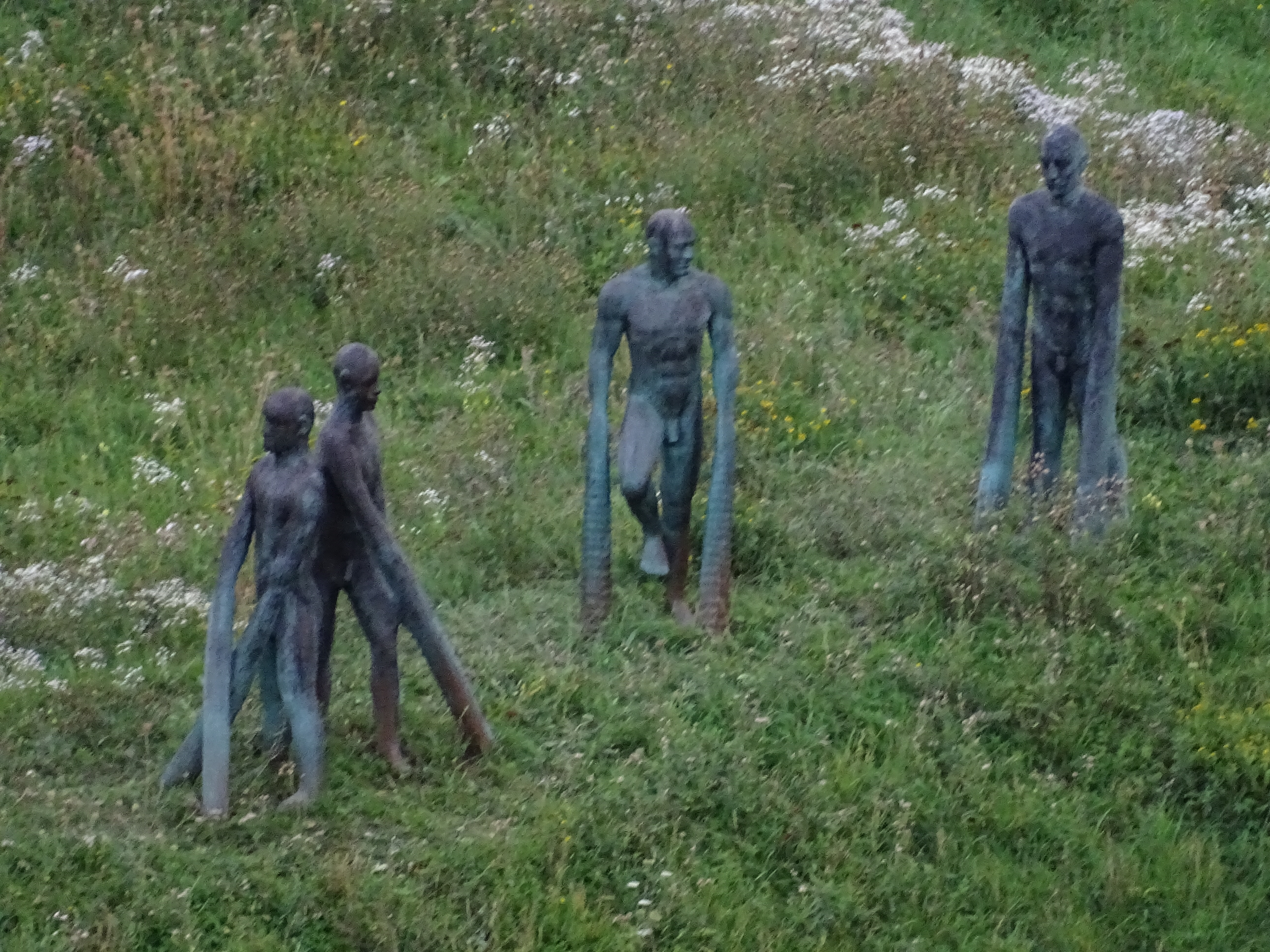 Prague-Troja, Czech Republic. Prague Zoo. Statues by Michal Gabriel in cheetah paddock.